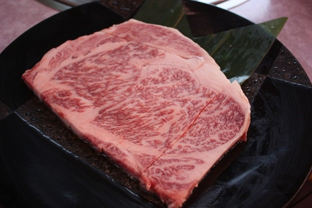 Maezawa beef rib at the cafeteria Daikō in Shibayama, Chiba